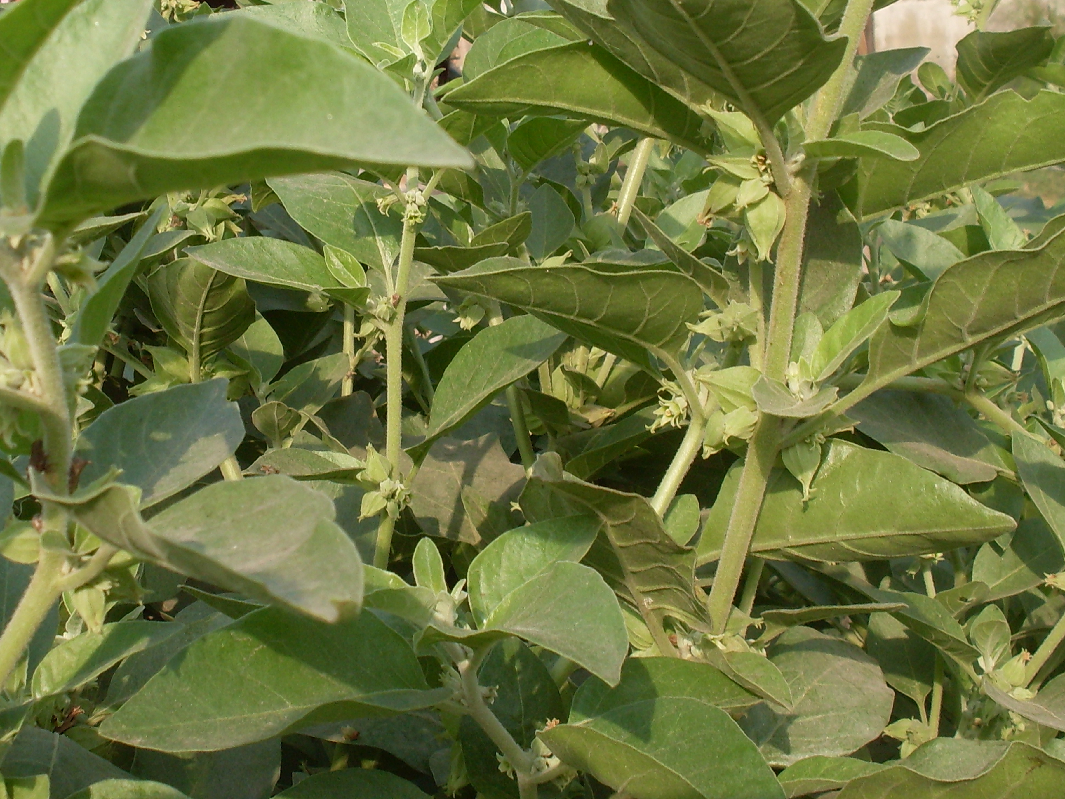 A bush of Withania somnifera in Nepal.